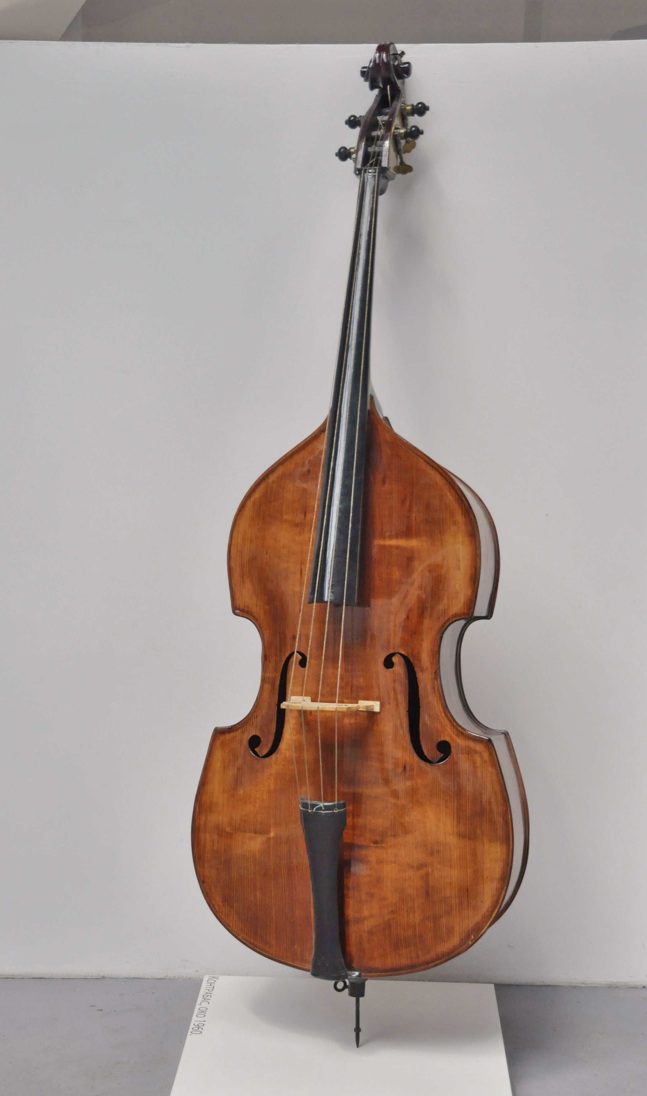 Double basse located in Museum of Science and Technology in Belgrade.